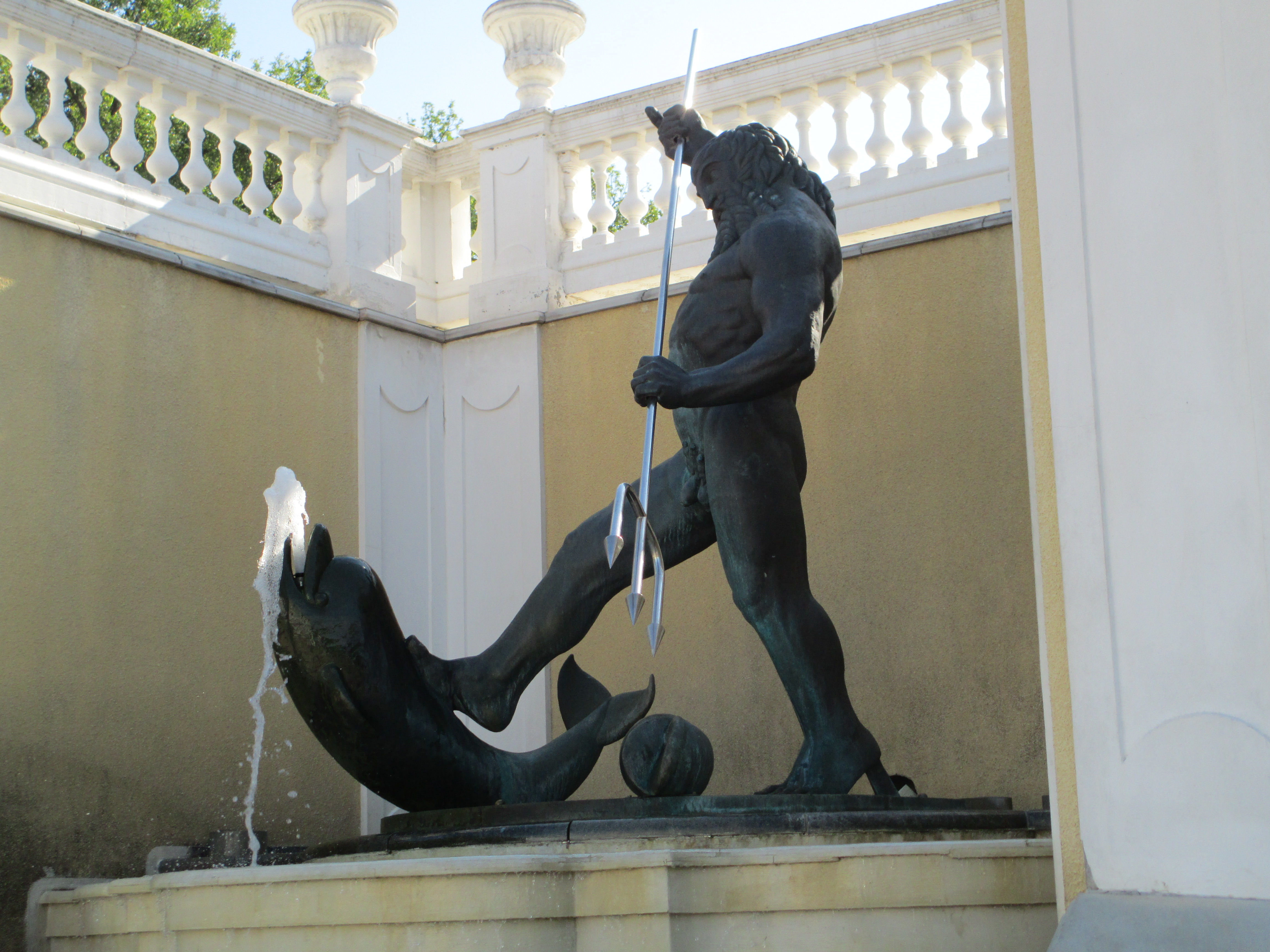 statue of poseidon in kadriorg palace